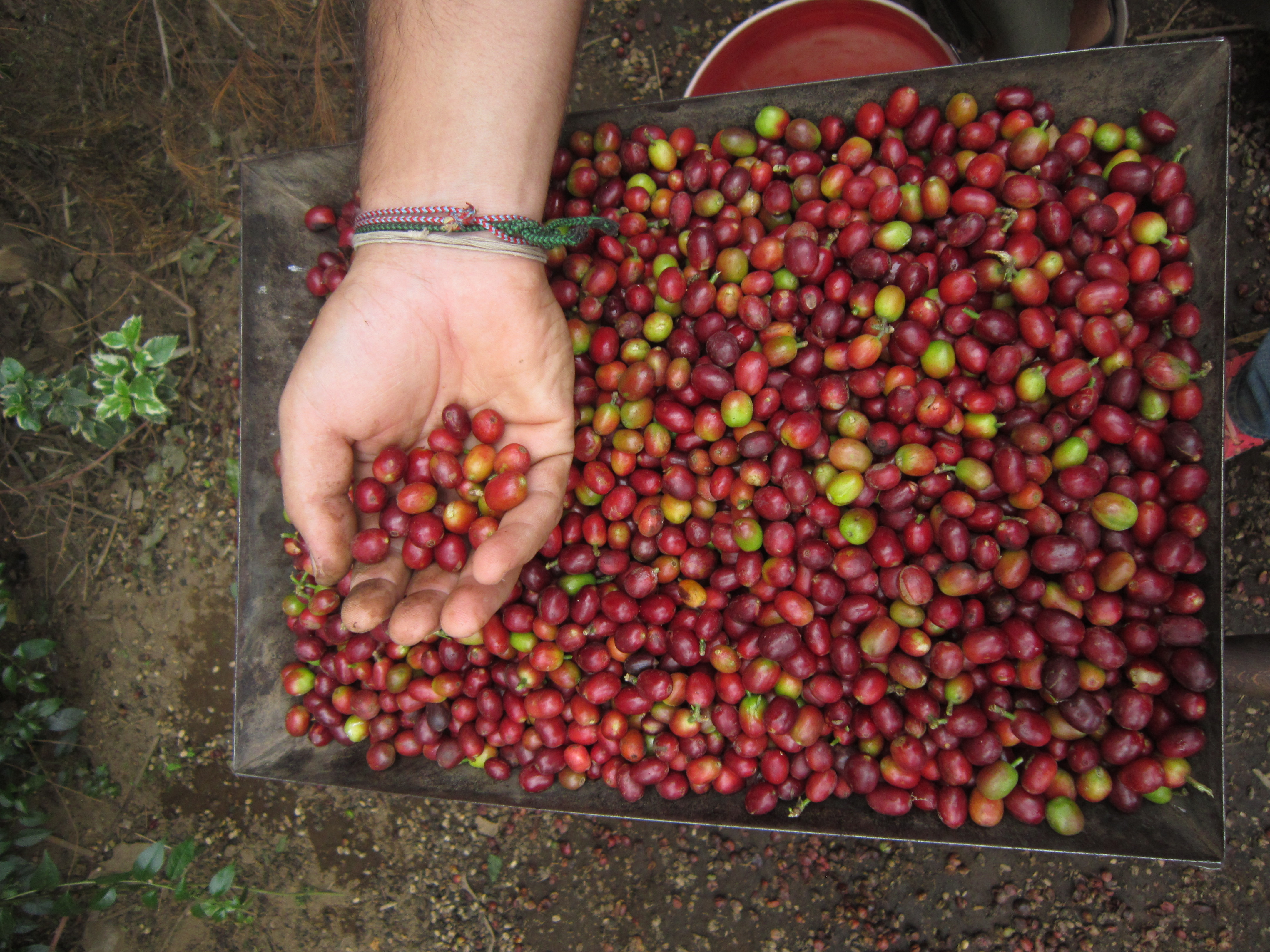 after picking